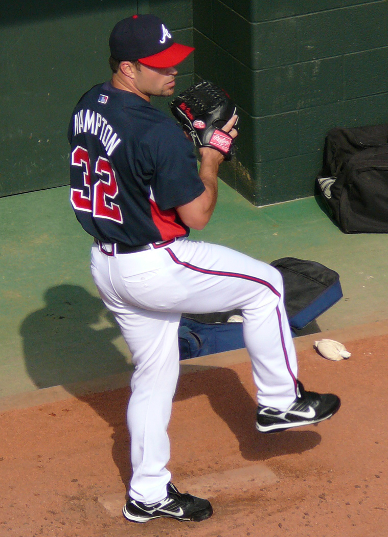 User:Chrisjnelson agreed to license this image of Mike_Hampton.jpg under a free attribution license. Any use of this image must be attributed; this means that Photo by :en:User:Chrisjnelson|Chris Nelson should be in the picture caption. 21:26, 23 April 2008 . . Chrisjnelson . . 759×1,050 (716 KB)